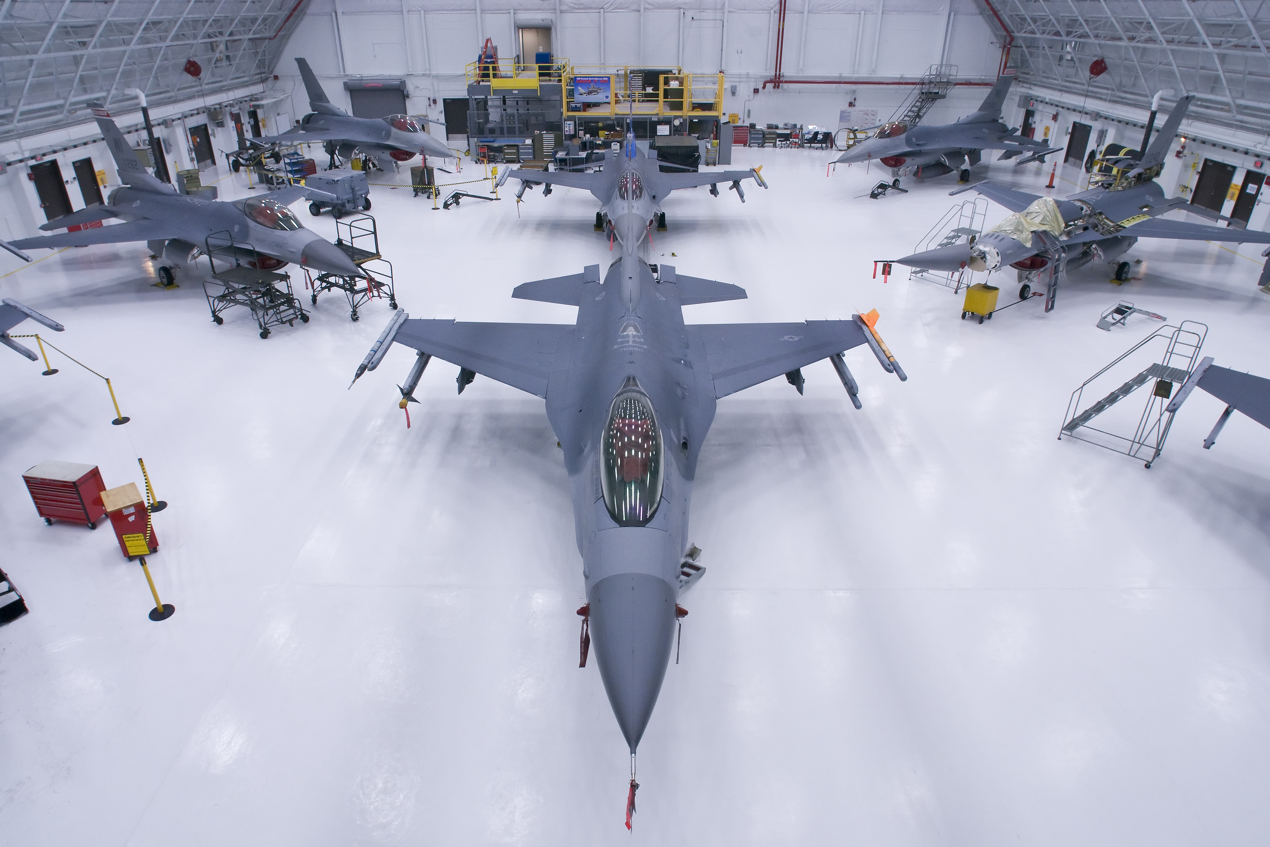 Wisconsin Air National Guard at Truax Field, WI